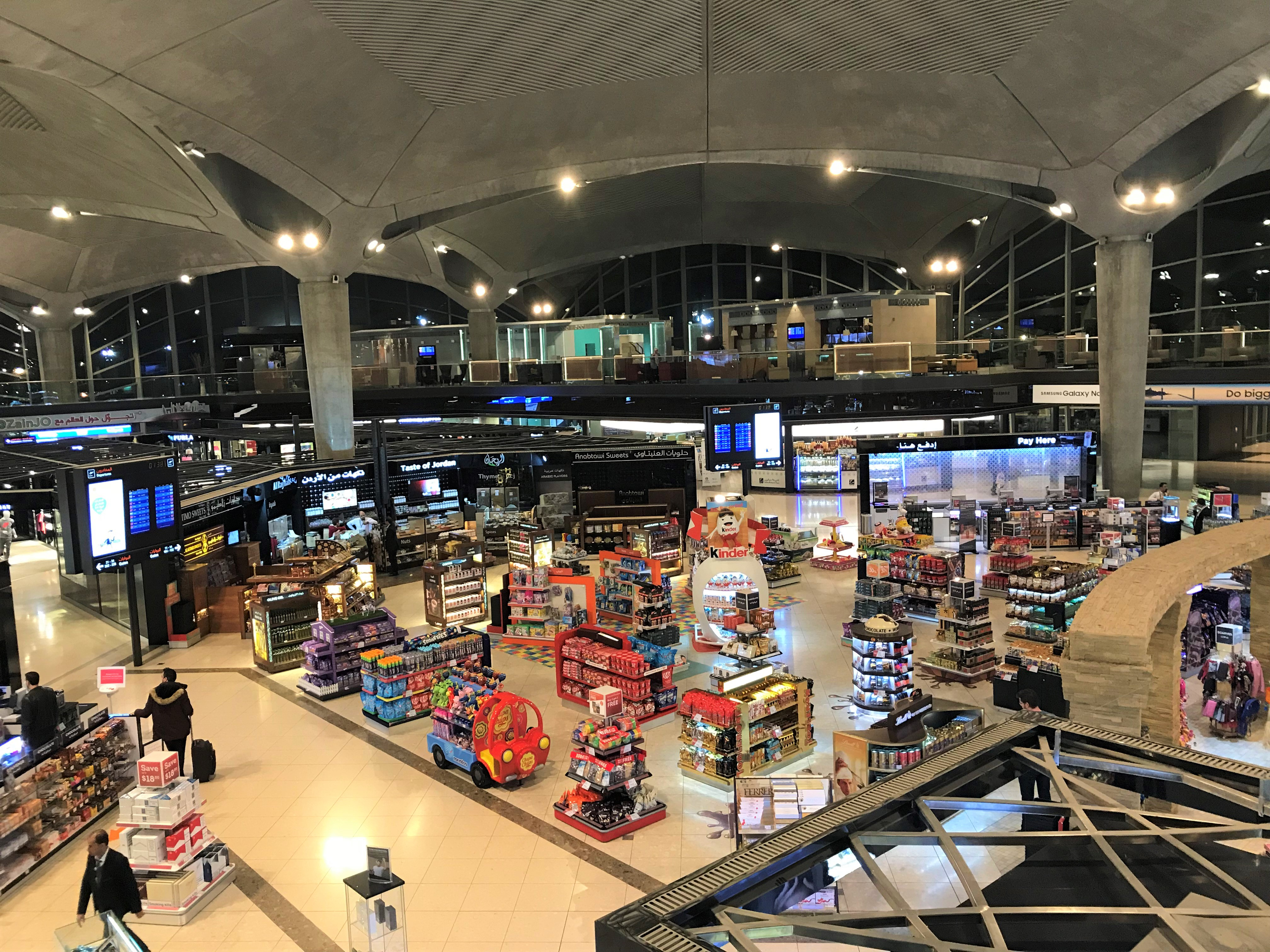 Queen Alia International Airport Free Market